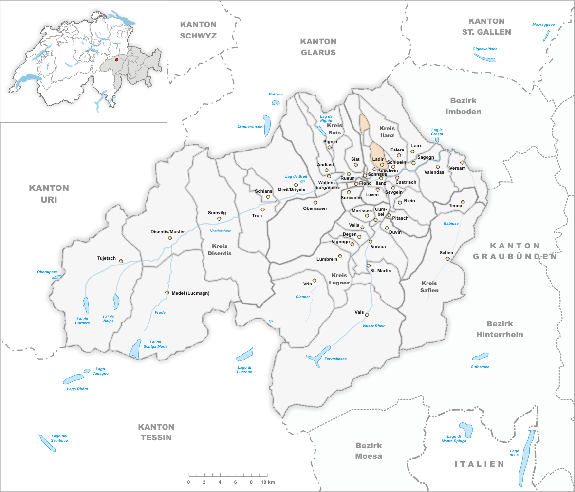 Municipality Ladir